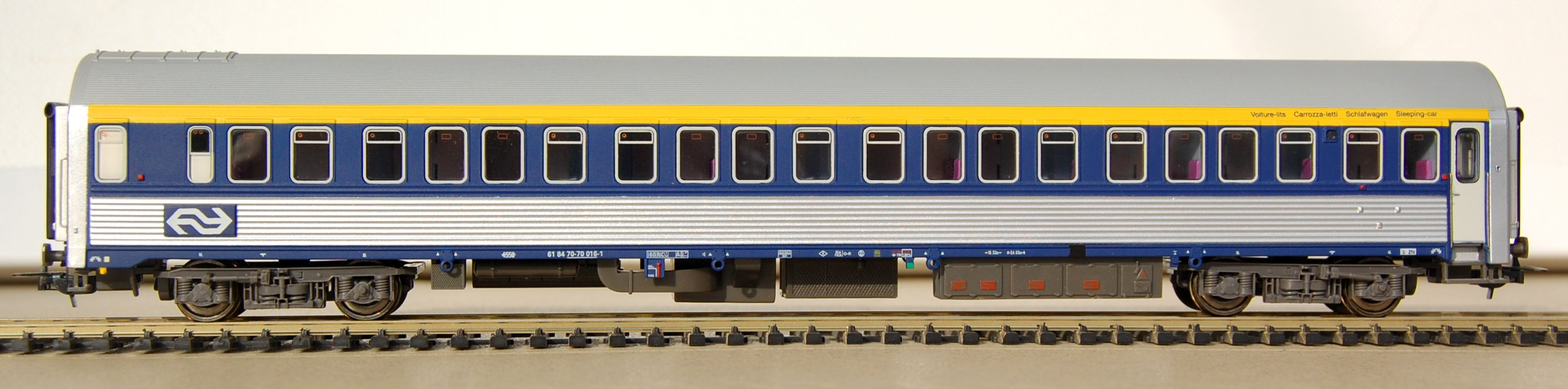 NS WLAB 30 sleeping car (ex CIWL WLA P).